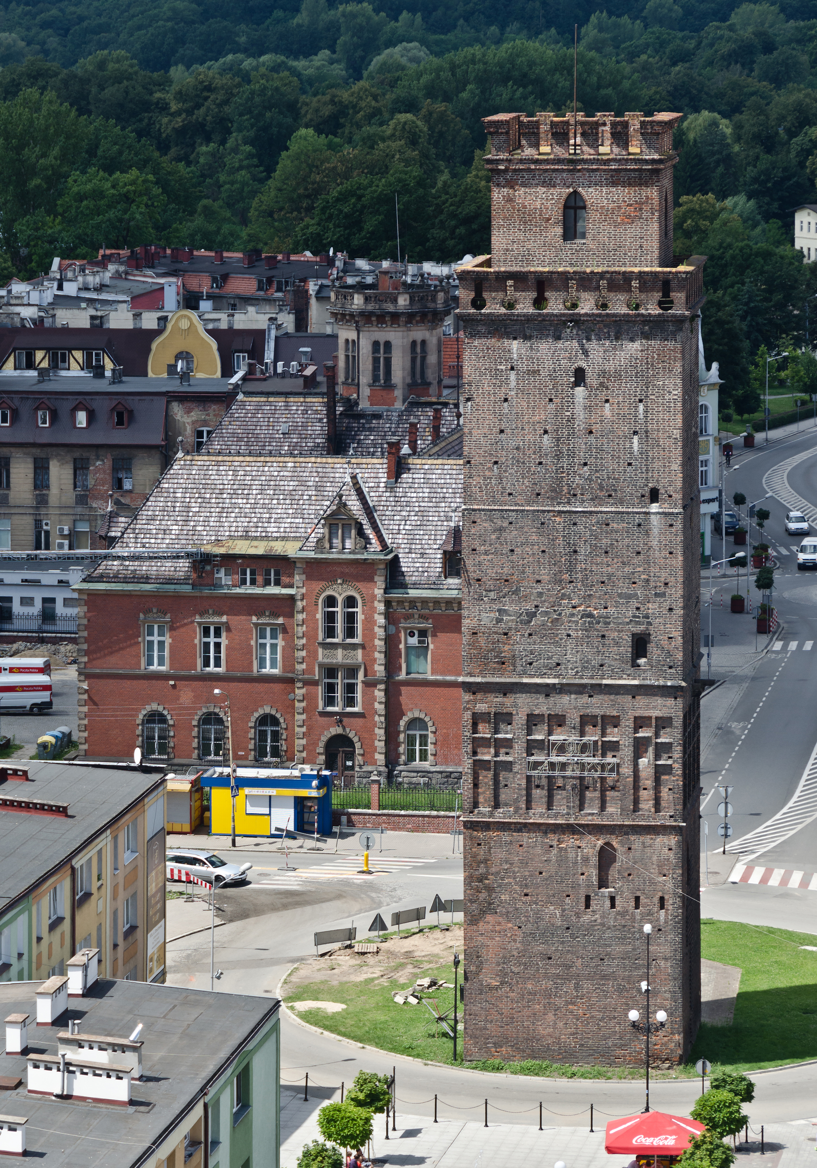 Ziębicka Gate in Nysa